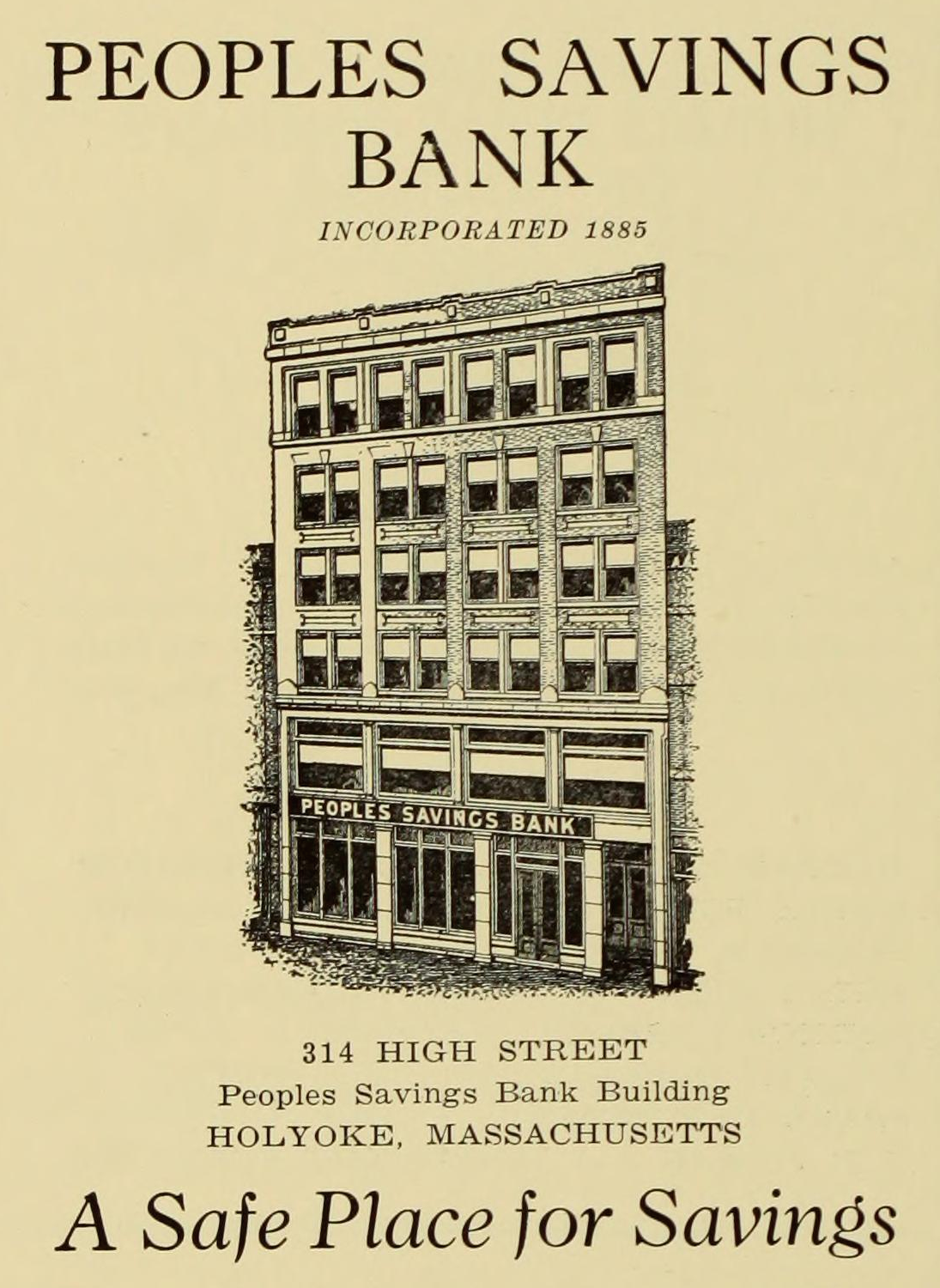 Early advertisement for the Peoples Savings Bank, Holyoke, Massachusetts